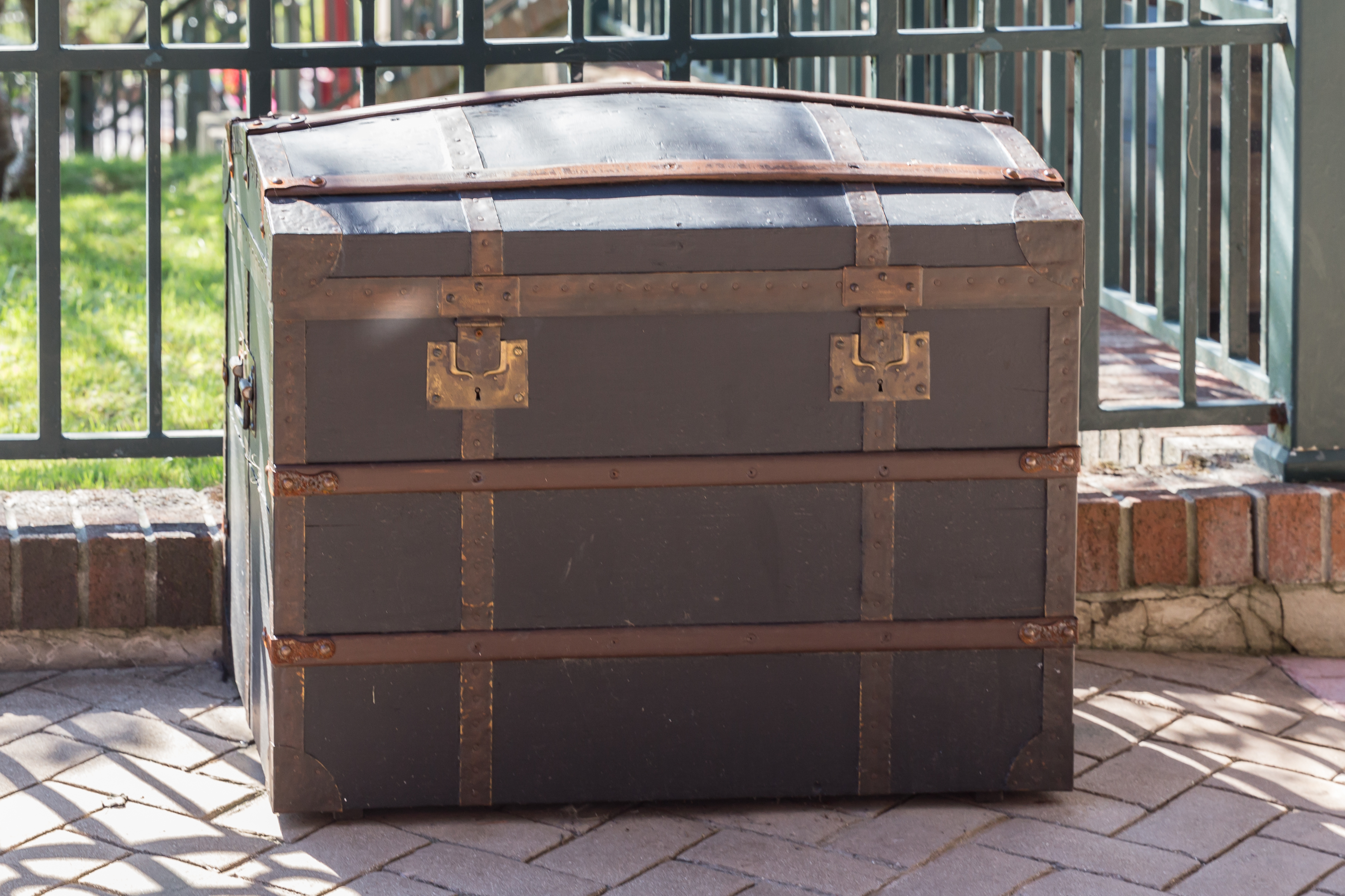 Malle on the path of Disneyland Railroad, an attraction at Disneyland Paris.